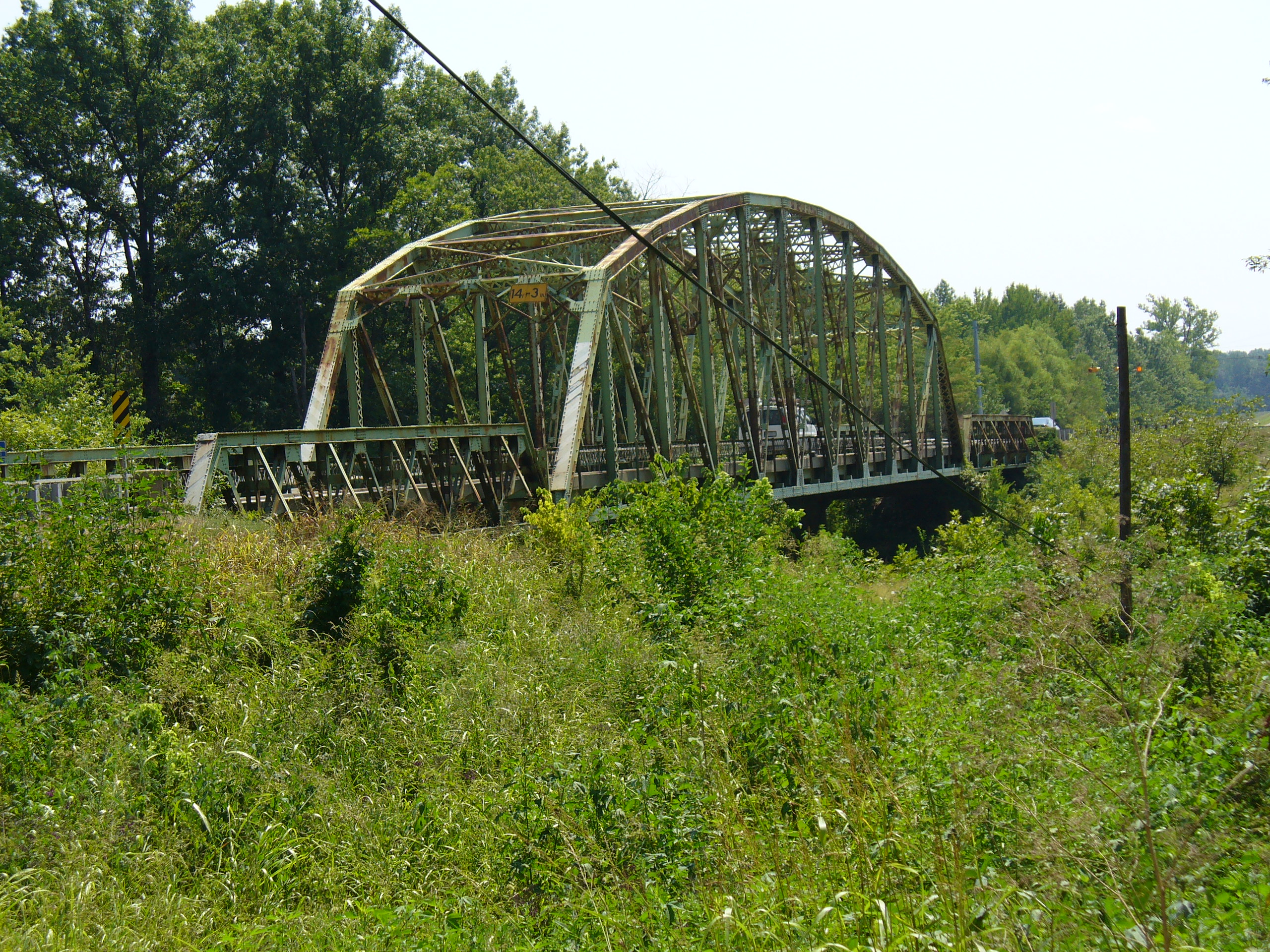 Bridge over a small tributary of the Wabash River. Flooded in 2005, and along with it much of East Mount Carmel in Gibson County